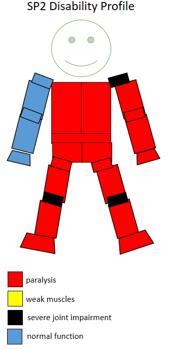 Shows F2 SP2 disability sports profile. Created using information from